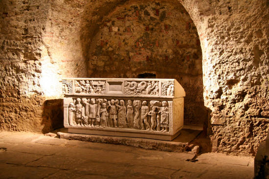 Roman sarcophage of Saint Quitterie, martyr, at Saint-Quittérie d'Aire, in Aire-sur-l'Adour